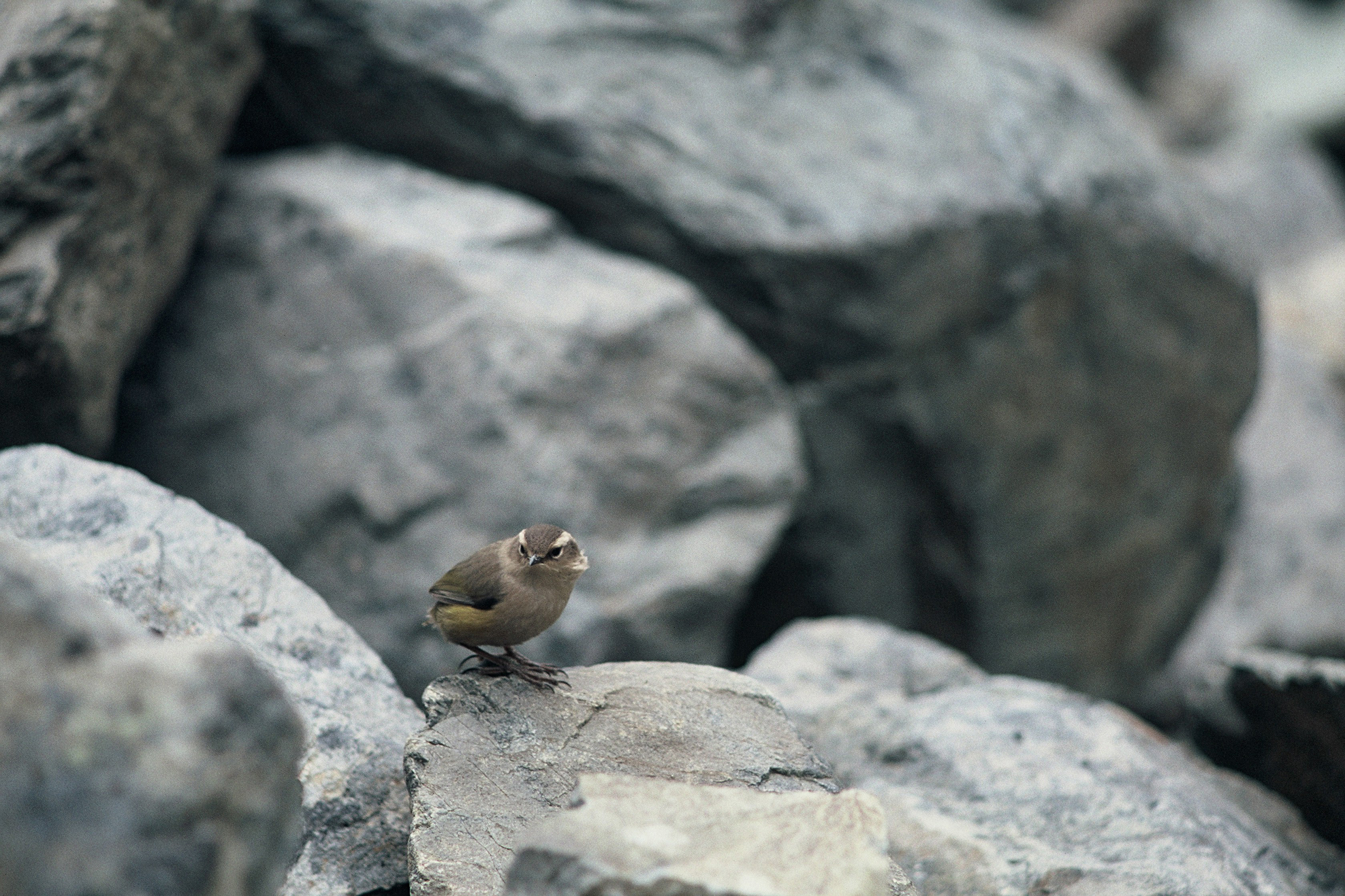 A NZ rock wren (Xenicus gilviventris) in a rockfall, its preferred habitat